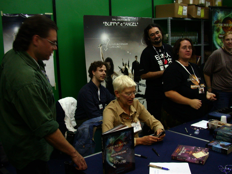 Margaret Weis at Lucca Games 2005, the games show held within Lucca Comics.